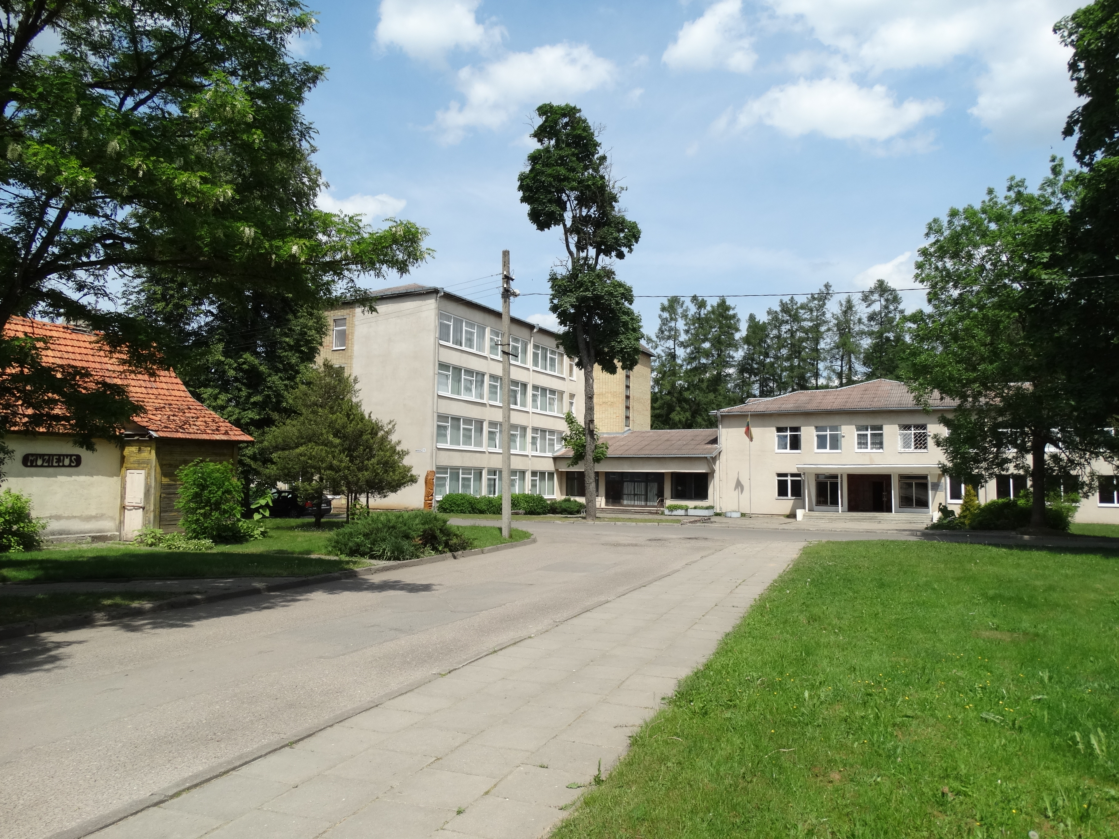 School of Agriculture, Bukiškės, Vilnius District, Lithuania